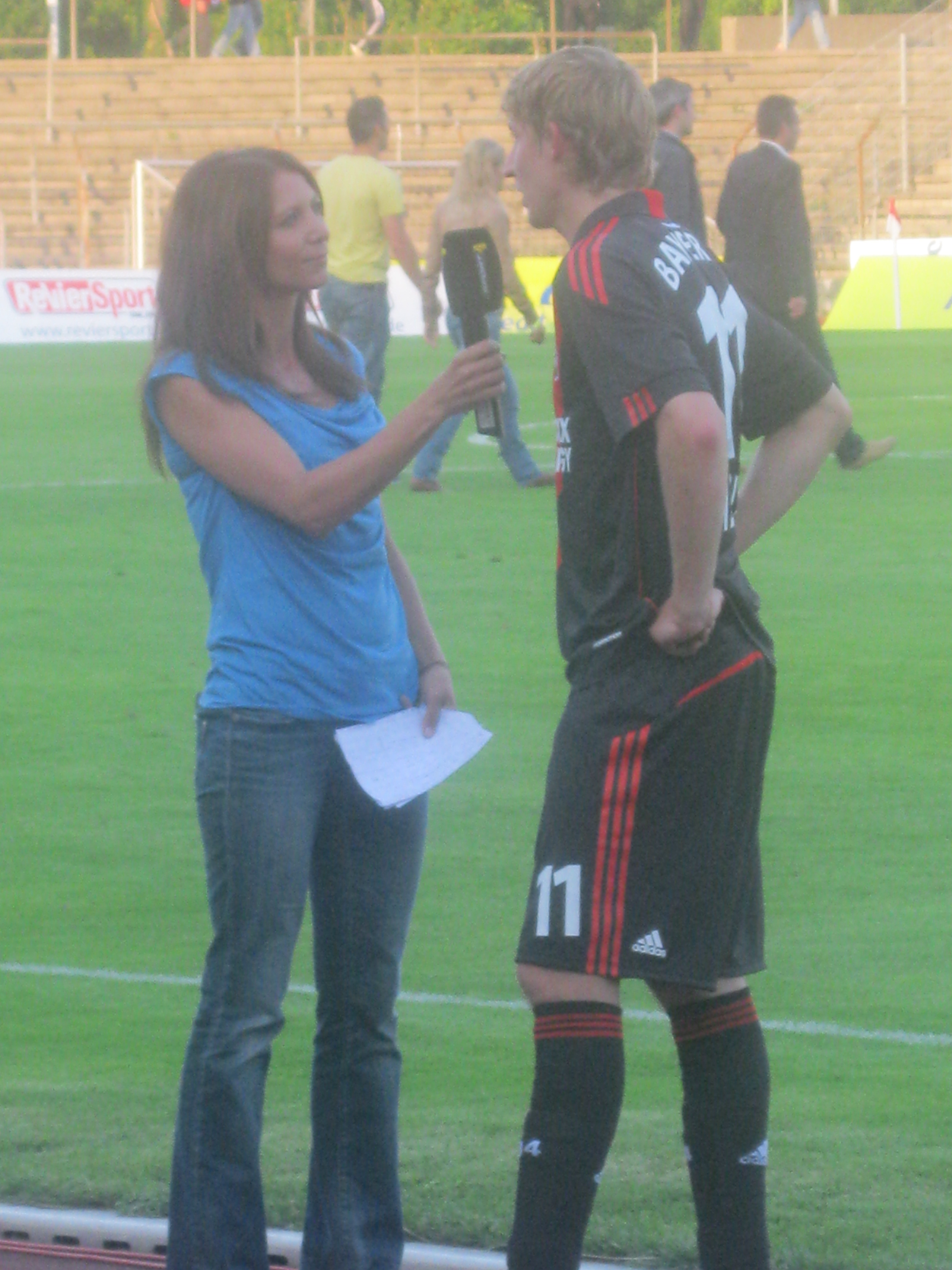 Bayer Leverkusen's Stefan Kießling interviewed after a friendly against Fortuna Köln.